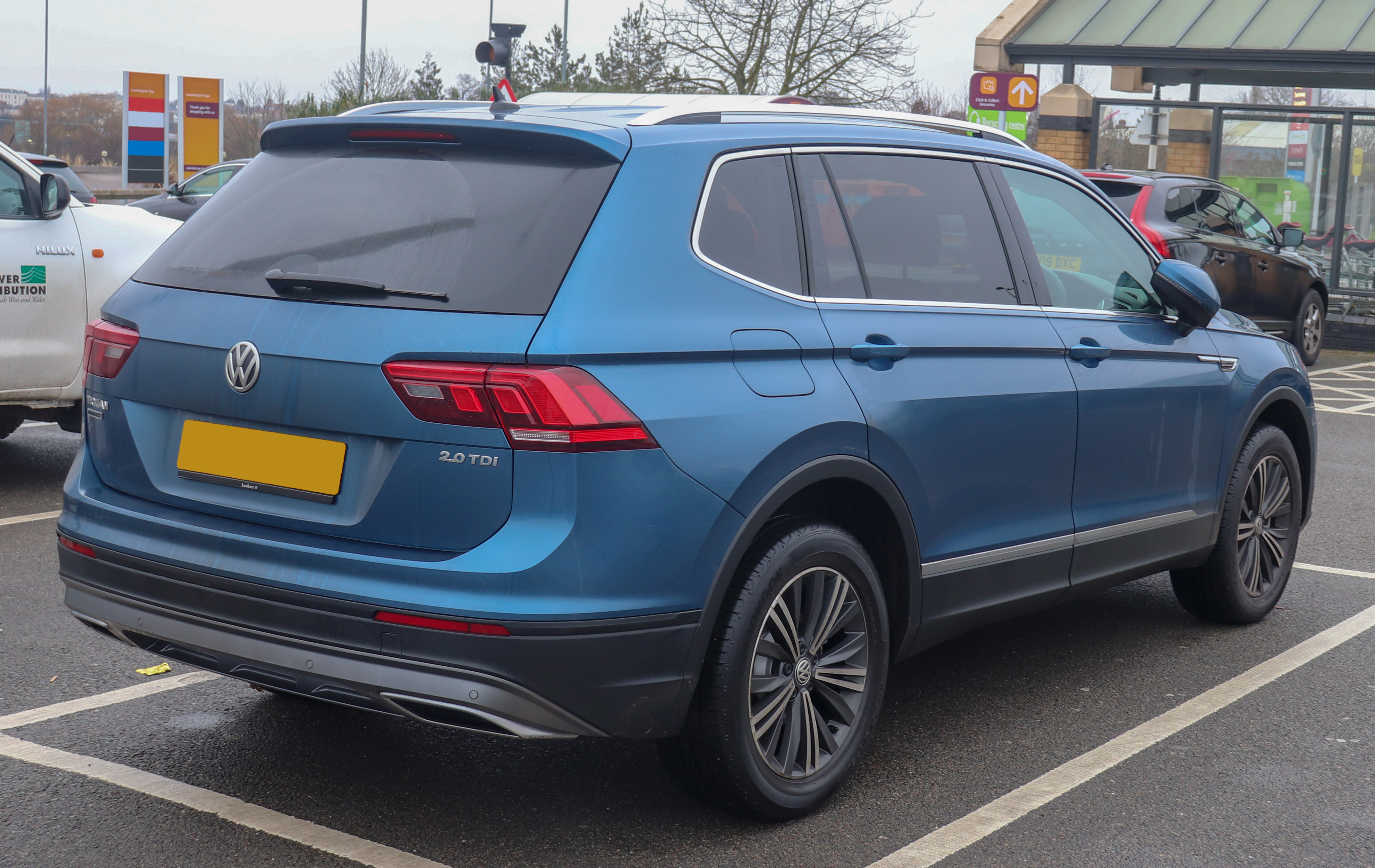 2018 Volkswagen Tiguan Allspace SE NAV TD 2.0 Rear Taken in Leamington Spa